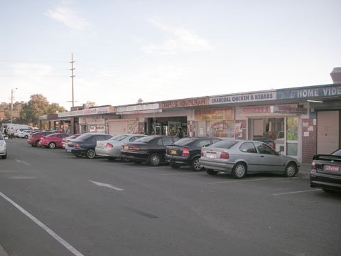 Lurnea Plaza on Hill Road at Lurnea, NSW